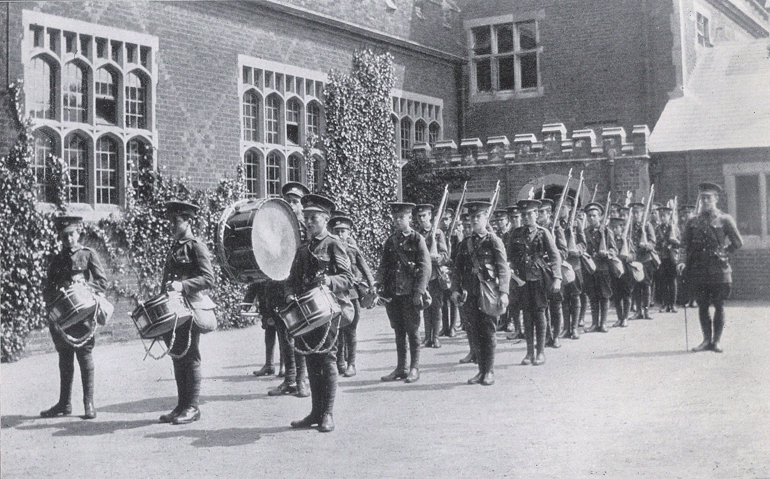 The cadet corps of Colchester Royal Grammar School, starting for camp at Clacton-on-Sea, July, 1914.